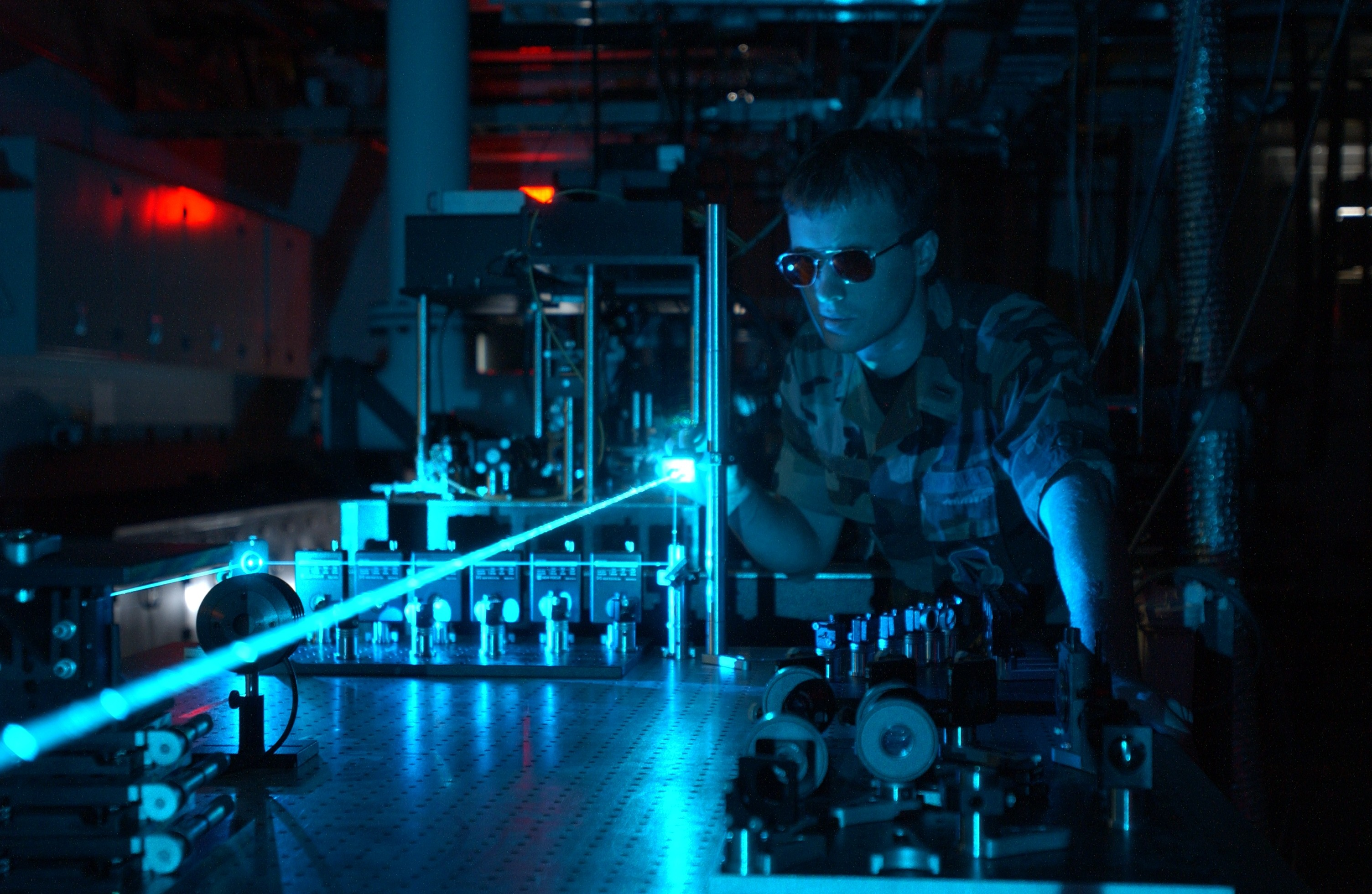 A military scientist operates a laser in a test environment. The United states Air Force Research Laboratory (AFRL) Directed Energy Directorate conducts research on a variety of solid-state and chemical lasers.